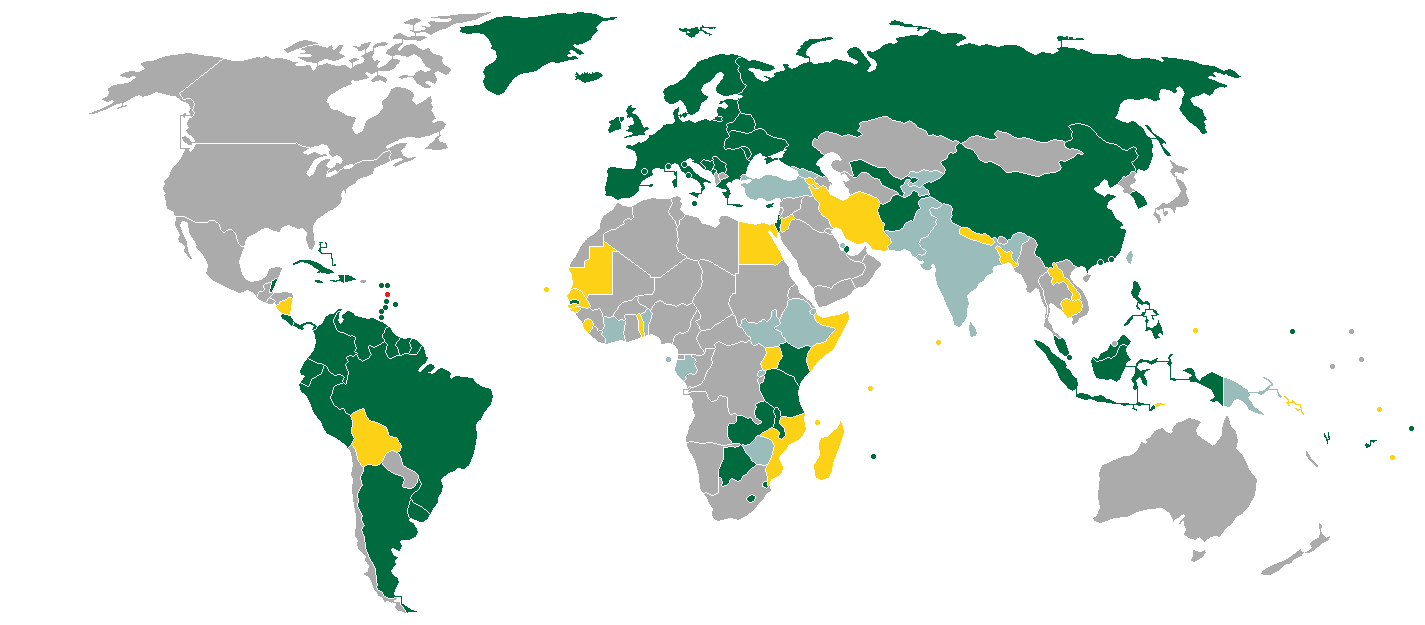 Visa requirements for Dominica citizens